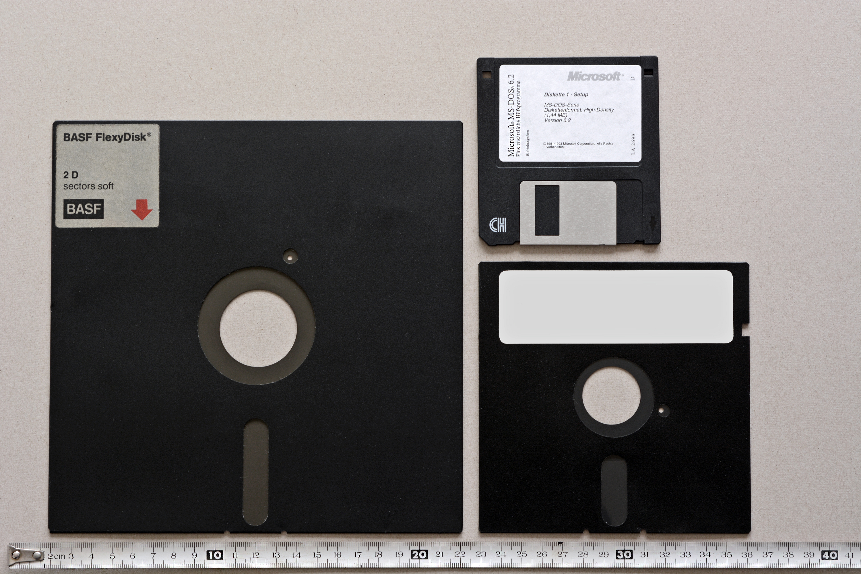 Three generations of floppy disks - 8 inches, 5 1/4 inches and 3 1/2 inches with centimeter scale